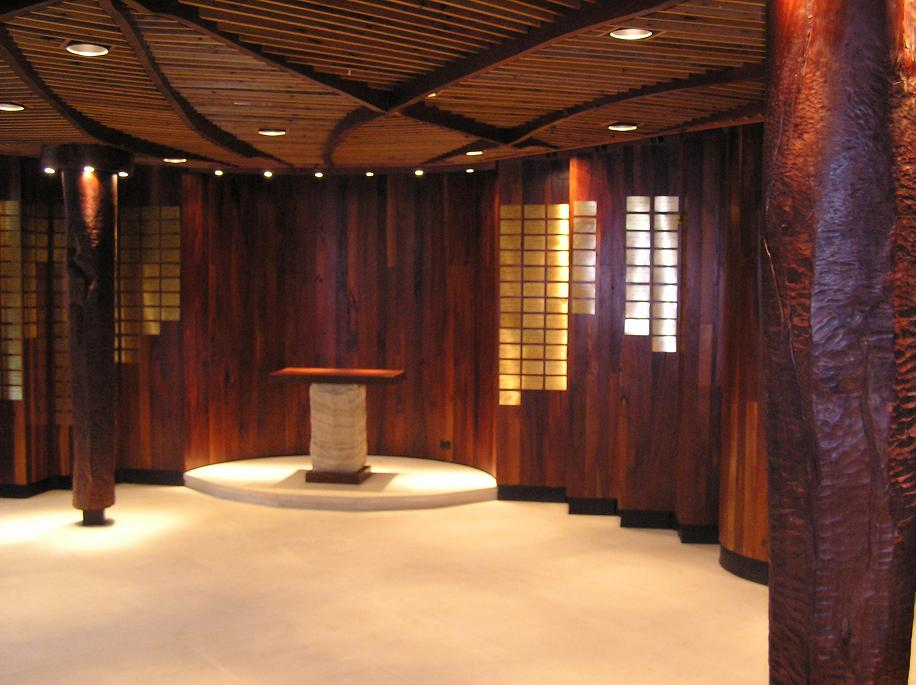 Chapel of Remembrance, Naval Chapel, Garden Island NSW. This chapel was officially opened on 25 August 1996 by Rear Admiral D.J. (David) Campbell, AM RAN, Flag Officer Naval Support Command, and dedicated by Principal Chaplains M.T. (Michael) Holtz AM RANR and G.H. (Gareth) Clayton RAN and Chaplain J.F.B. Connelly RAN. I took this picture in November 2006. Peter Ellis 21:30, 17 November 2006 (UTC)